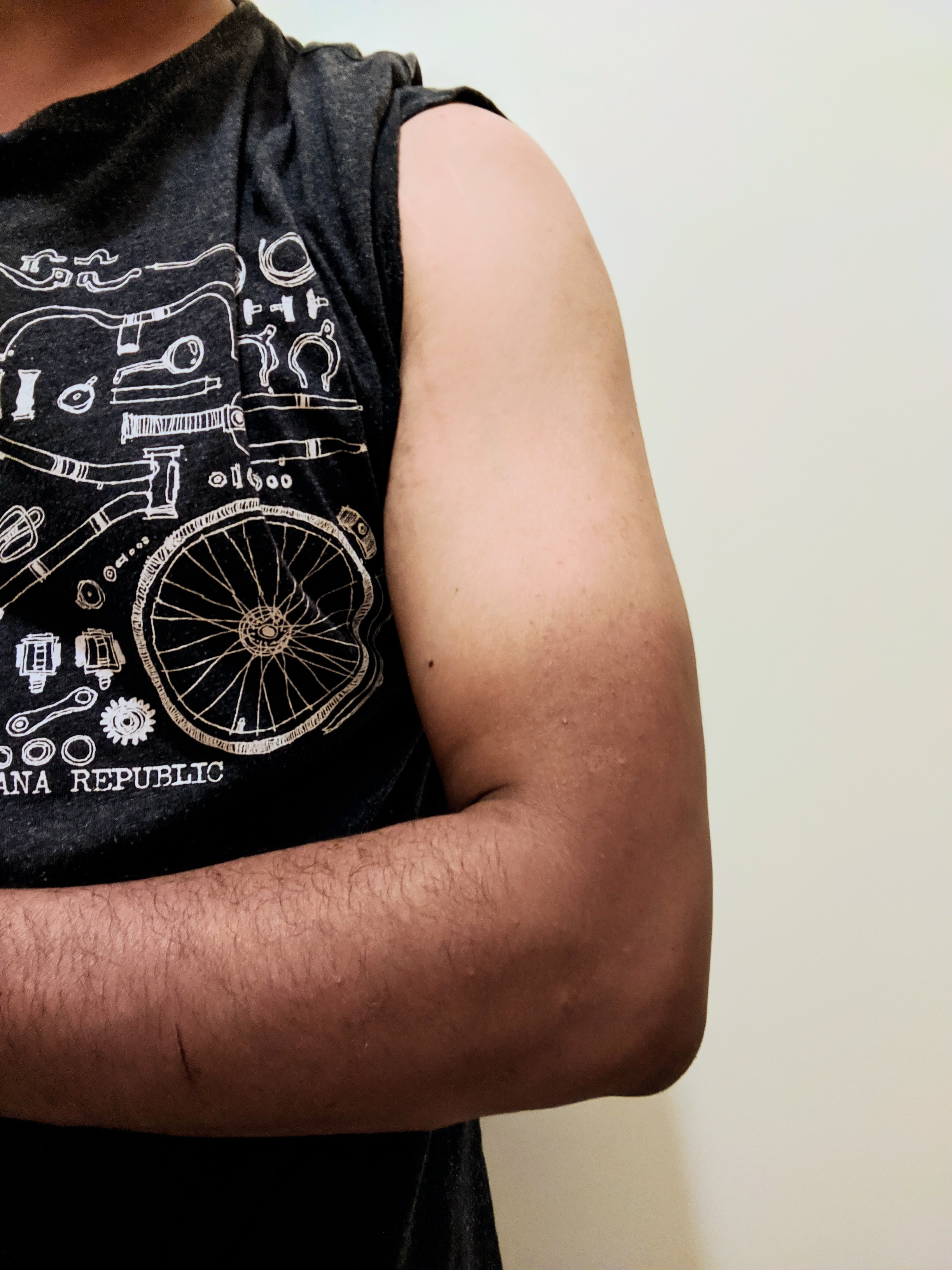 Sunburn